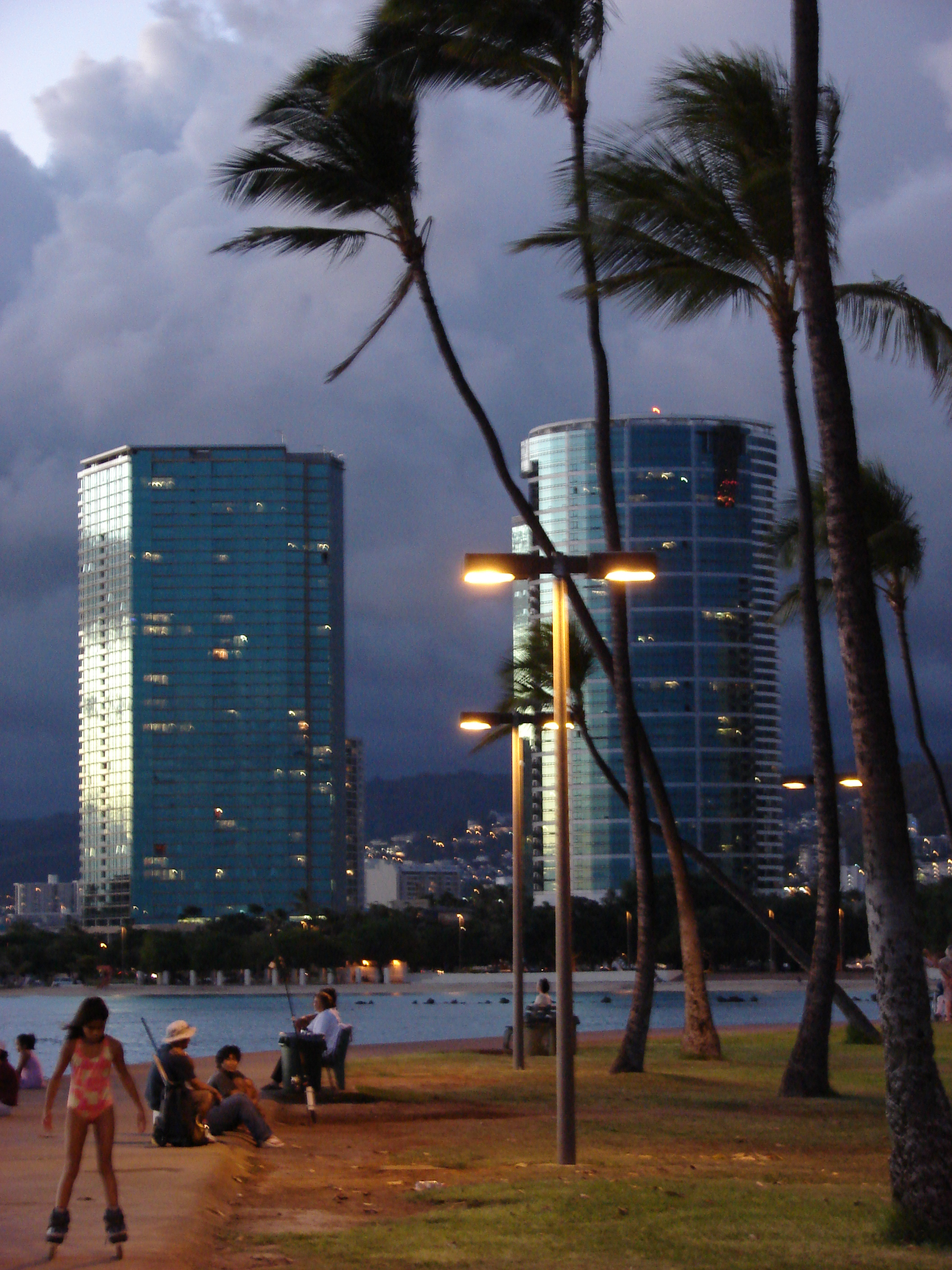 Location: Oahu, Ala Moana Beach Park and Magic Island